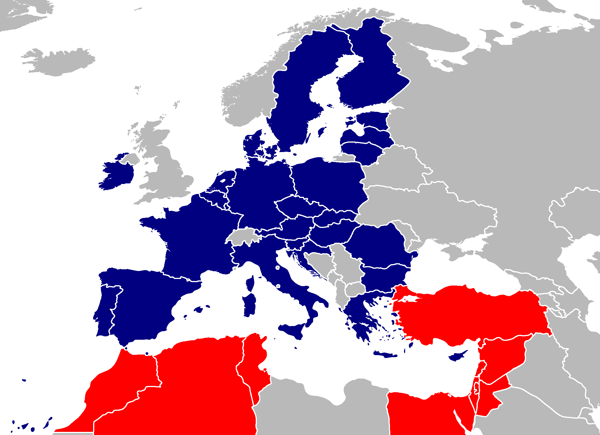 Members of the Euro-Mediterranean Partnership